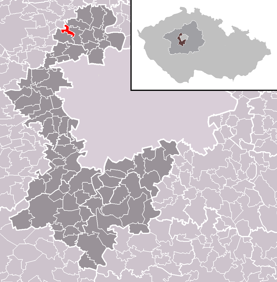 Location of Okoř municipality within Prague-West District and administrative area of Černošice as a Municipality with Extended Competence.